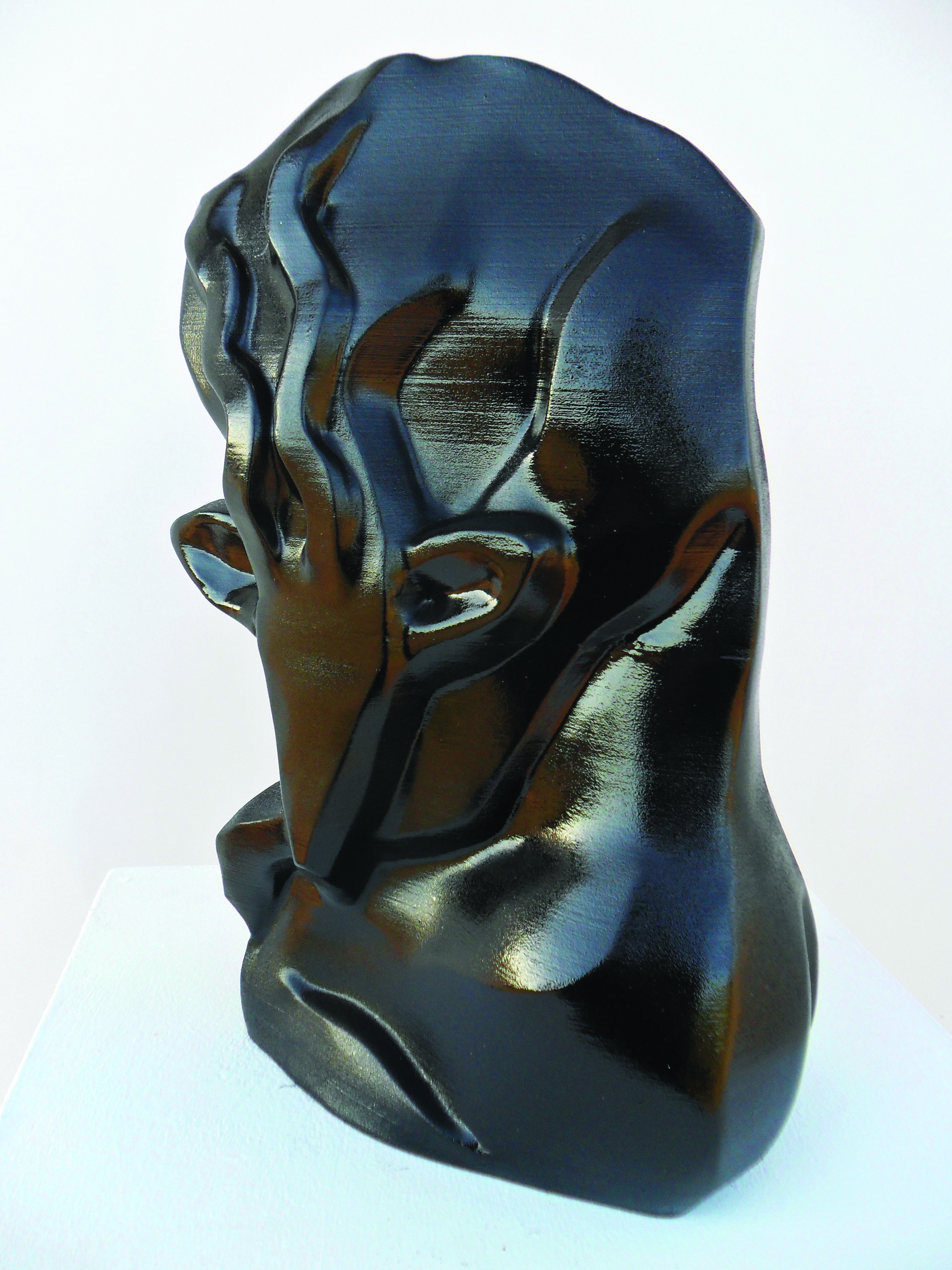 Polylactic acid, 22 x 13 x 16cm